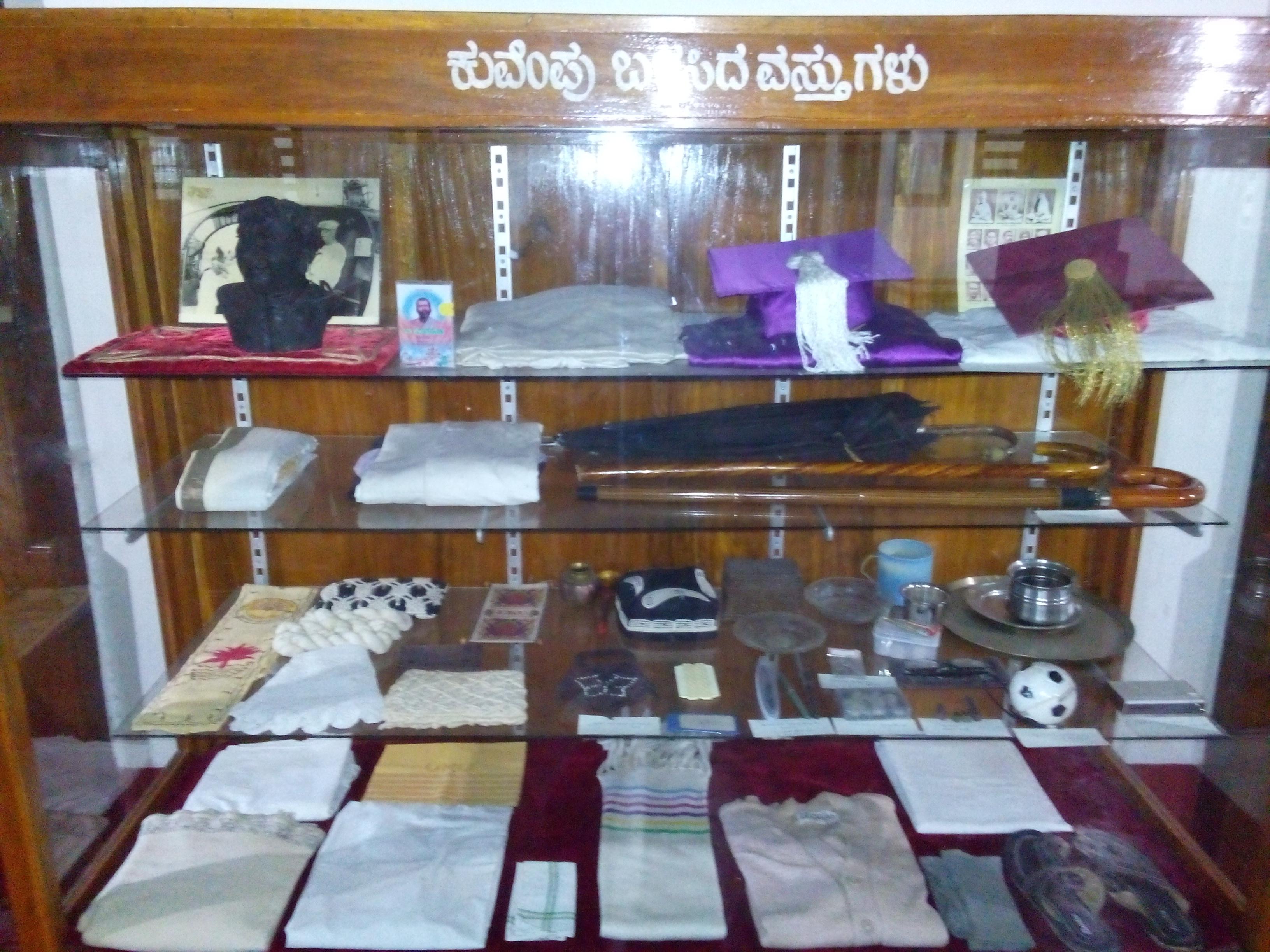 collection of used things